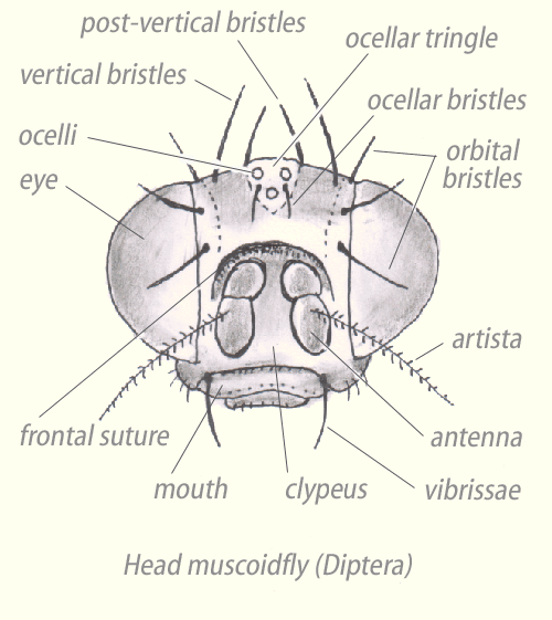 Head of moscoid fly (Diptera) A drawing by Halvard from Norway.